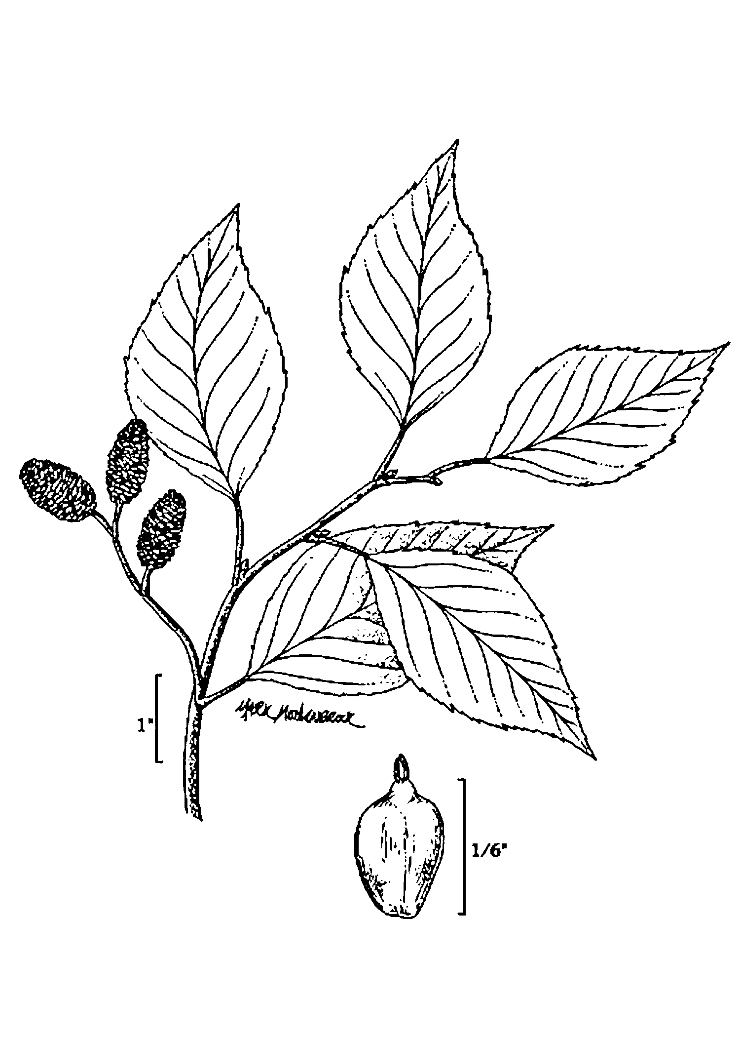 Seaside Alder. Family Betulaceae. Drawing.